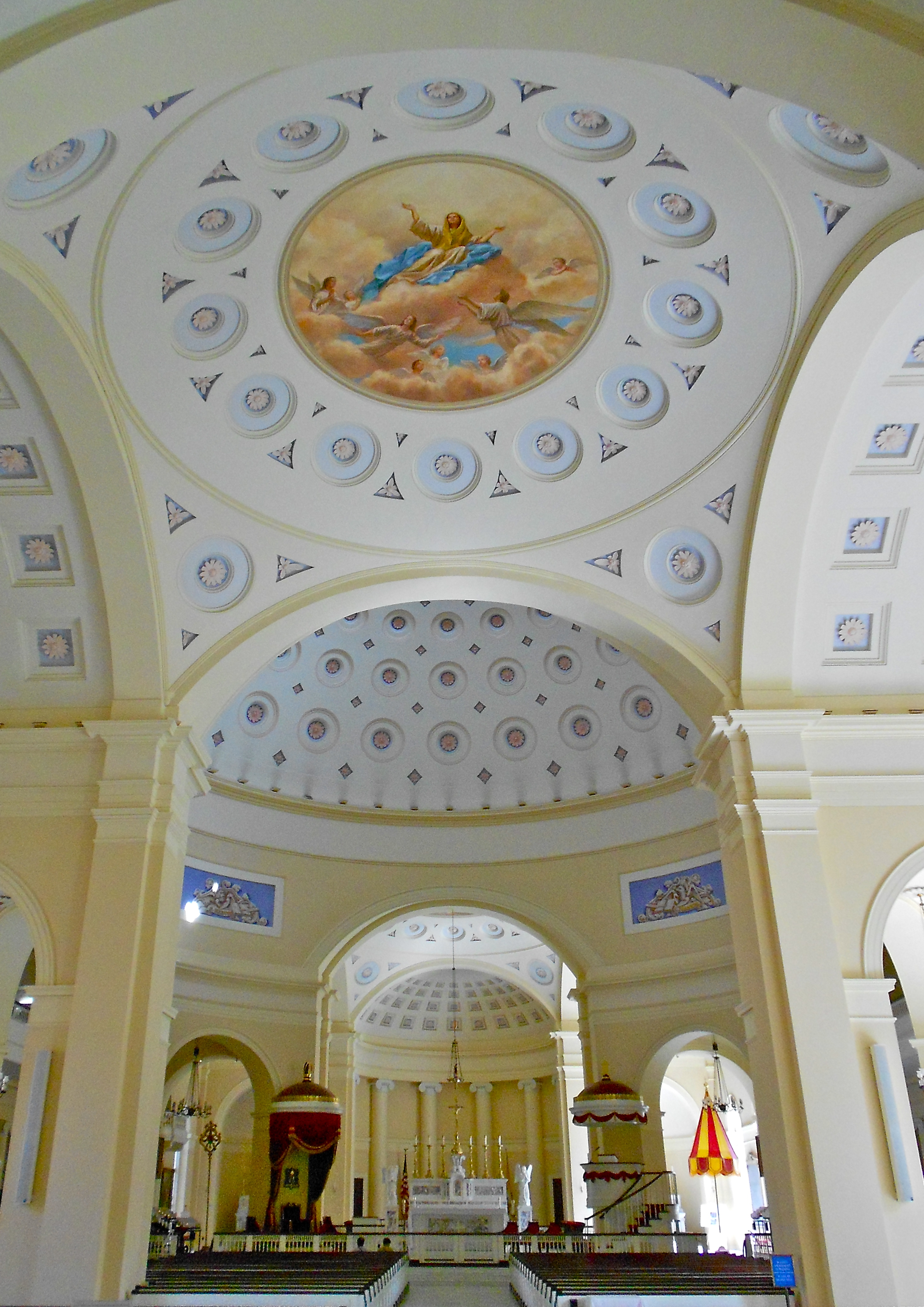 Main aisle in the Baltimore Basilica on Cathedral Street in Baltimore, Maryland